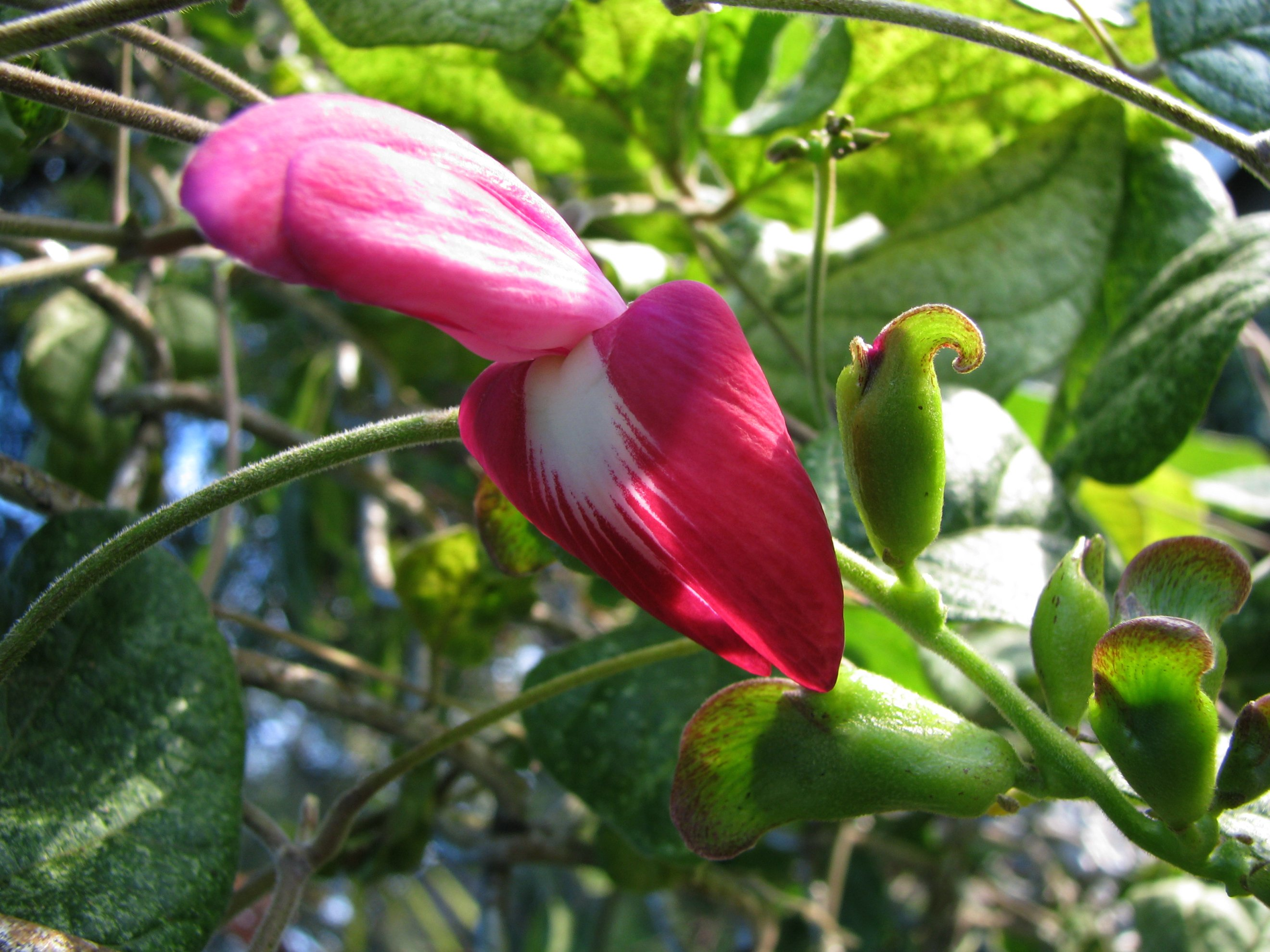 ʻĀwikiwiki or puakauhi Fabaceae Endemic to the Hawaiian Islands Oʻahu (Cultivated)